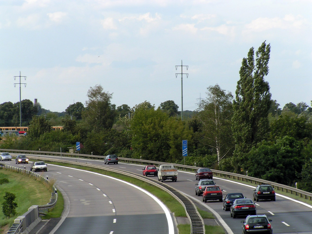 The motorway A 114 in Französisch-Buchholz district, Pankow, Berlin, close to the exit Bucher Straße. Visible in the background is a Berlin S-Bahn train on the S8 line to Birkenwerder.